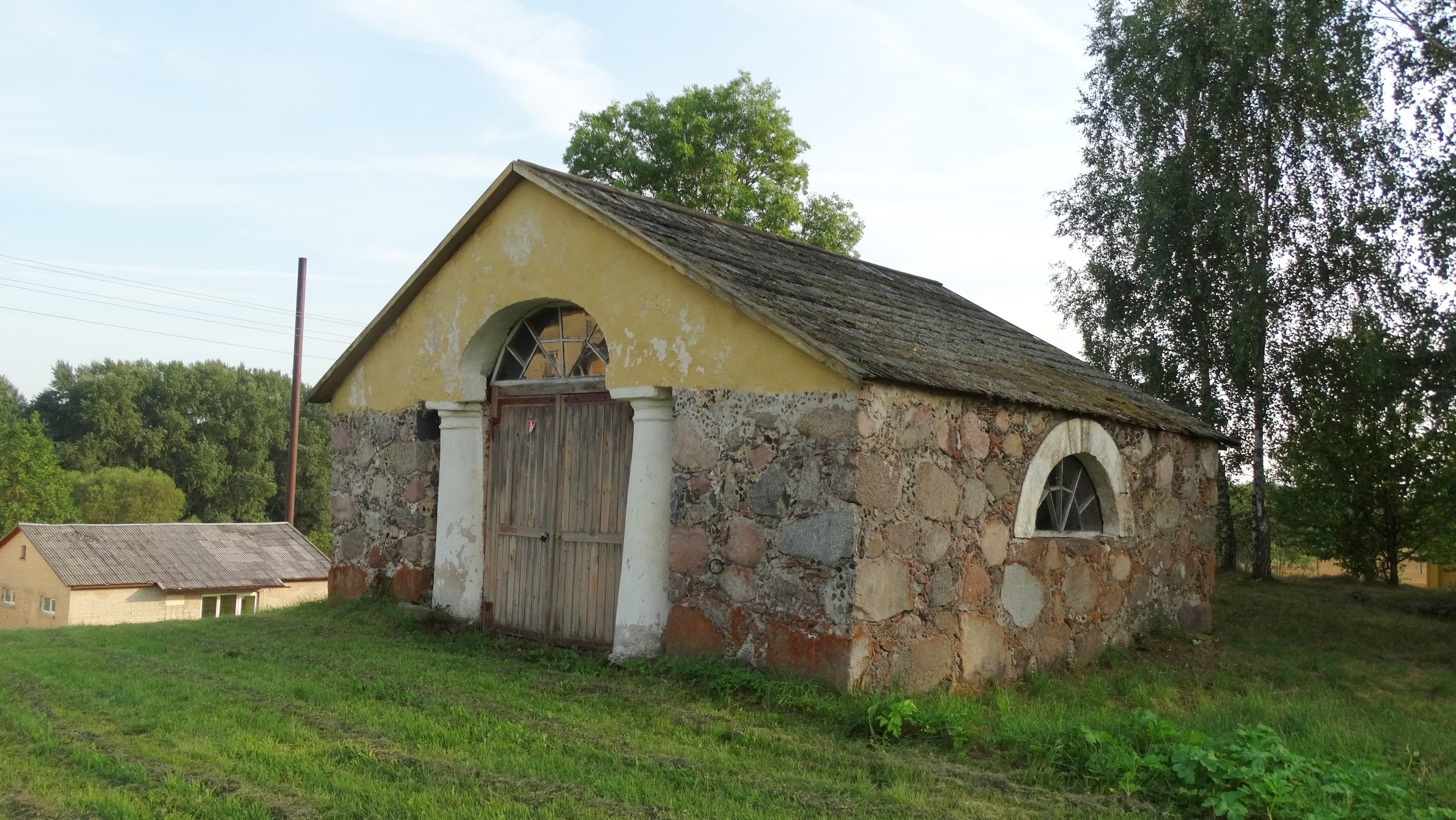 Former smithy, Cirkliškis, Švenčionys District, Lithuania